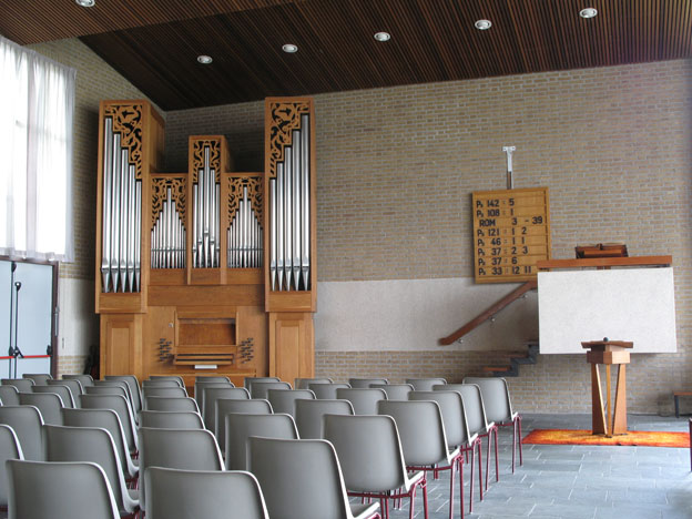 Dutch Reformed Church "The Cornerstone".